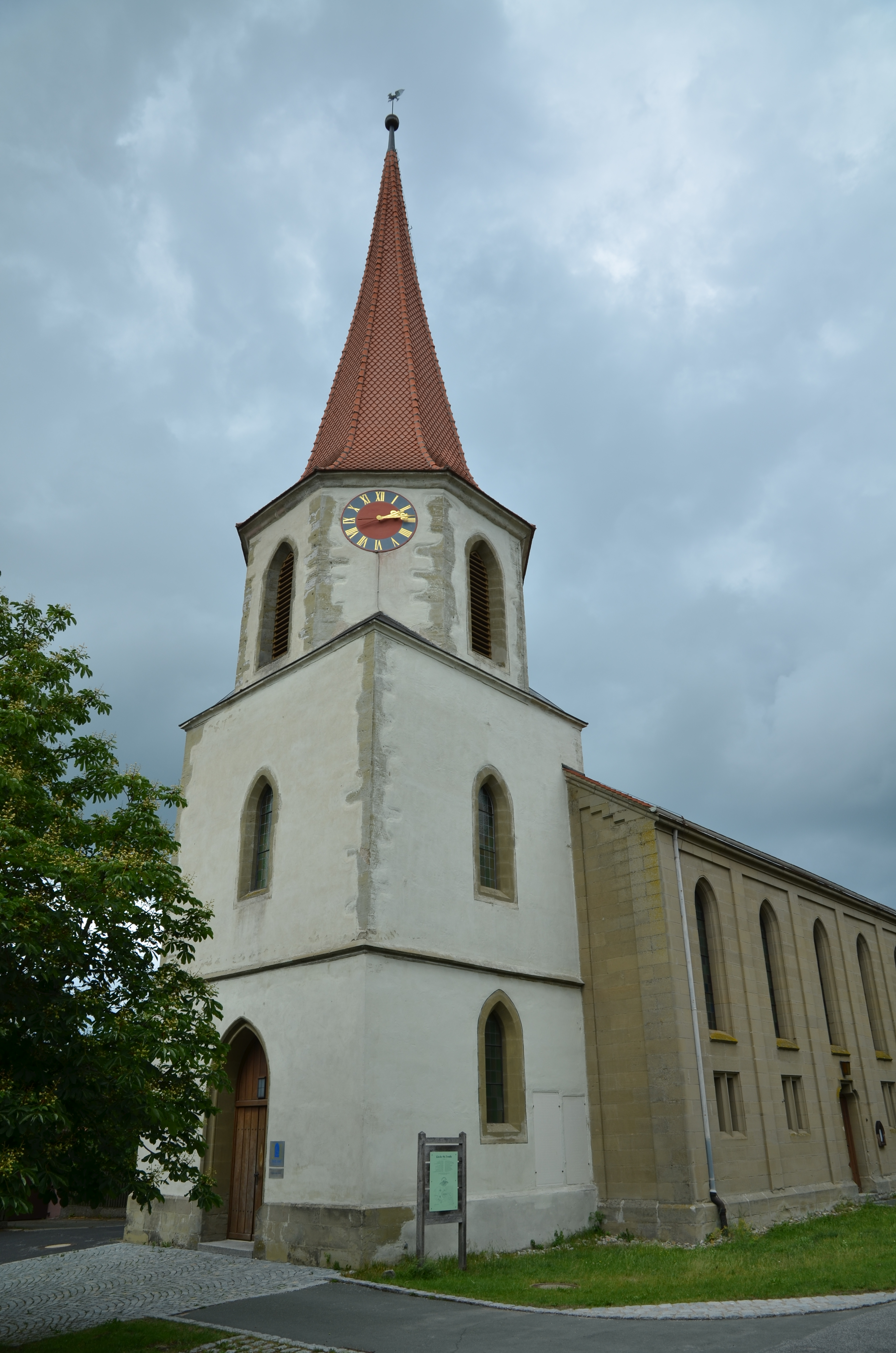 evang.-luth. Kirche St. Ursula in Colmberg